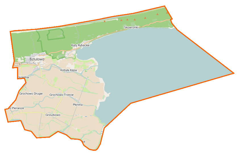 Map of Gmina Sztutowo, Poland This map of Sztutowo (gmina) was created from OpenStreetMap project data, collected by the community. This map may be incomplete, and may contain errors. Don't rely solely on it for navigation.